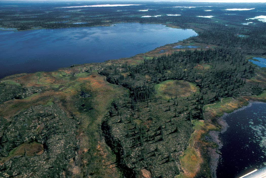 Area of Six Mile Lake near Mud River, Alaska[1]